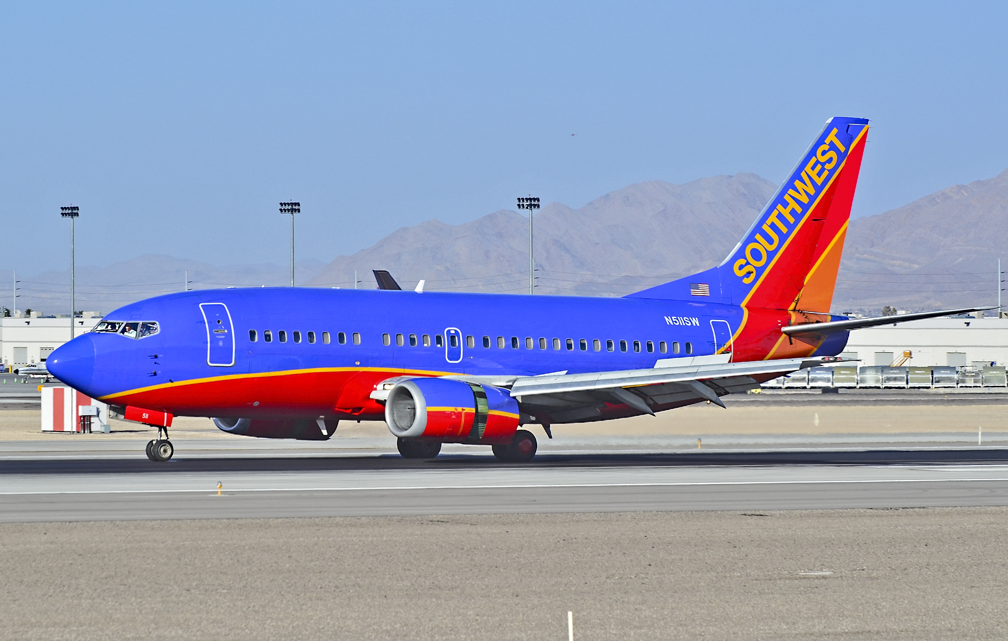 Southwest Airlines Boeing B737-500 Las Vegas - McCarran International (LAS / KLAS) USA - Nevada, February 19, 2014 Photo: Tomás Del Coro